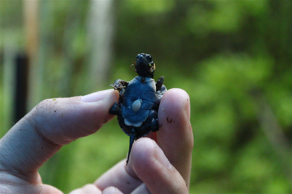 A baby bog turtle